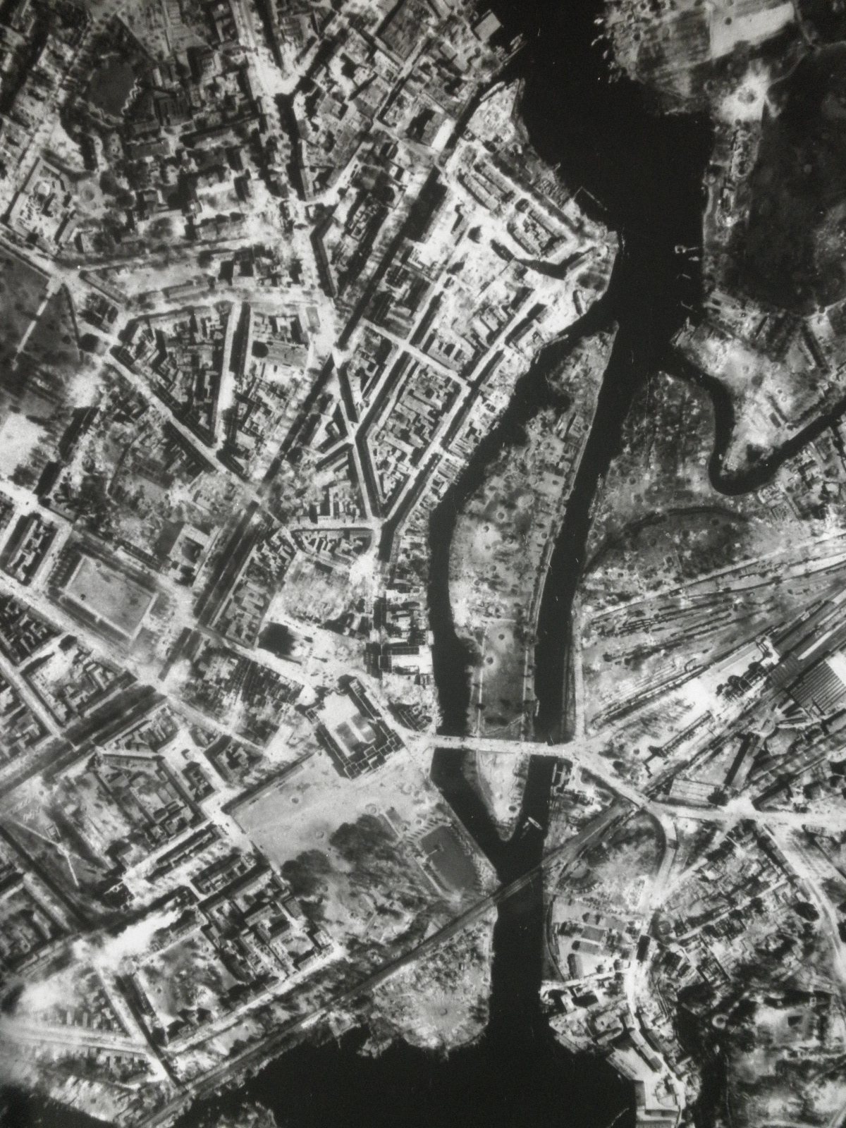 Aerial Photograph of Potsdam, Germany, short after bombardment by Royal Air Force on 14 April 1945